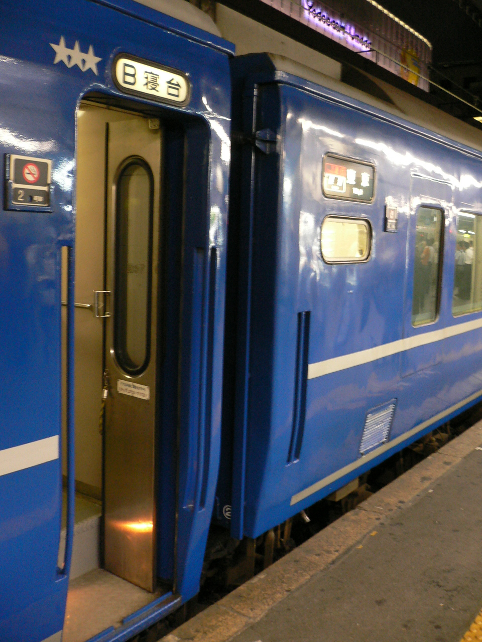 Sleeper cars of Japan. 3 stars mean that it is an economy class sleeper.